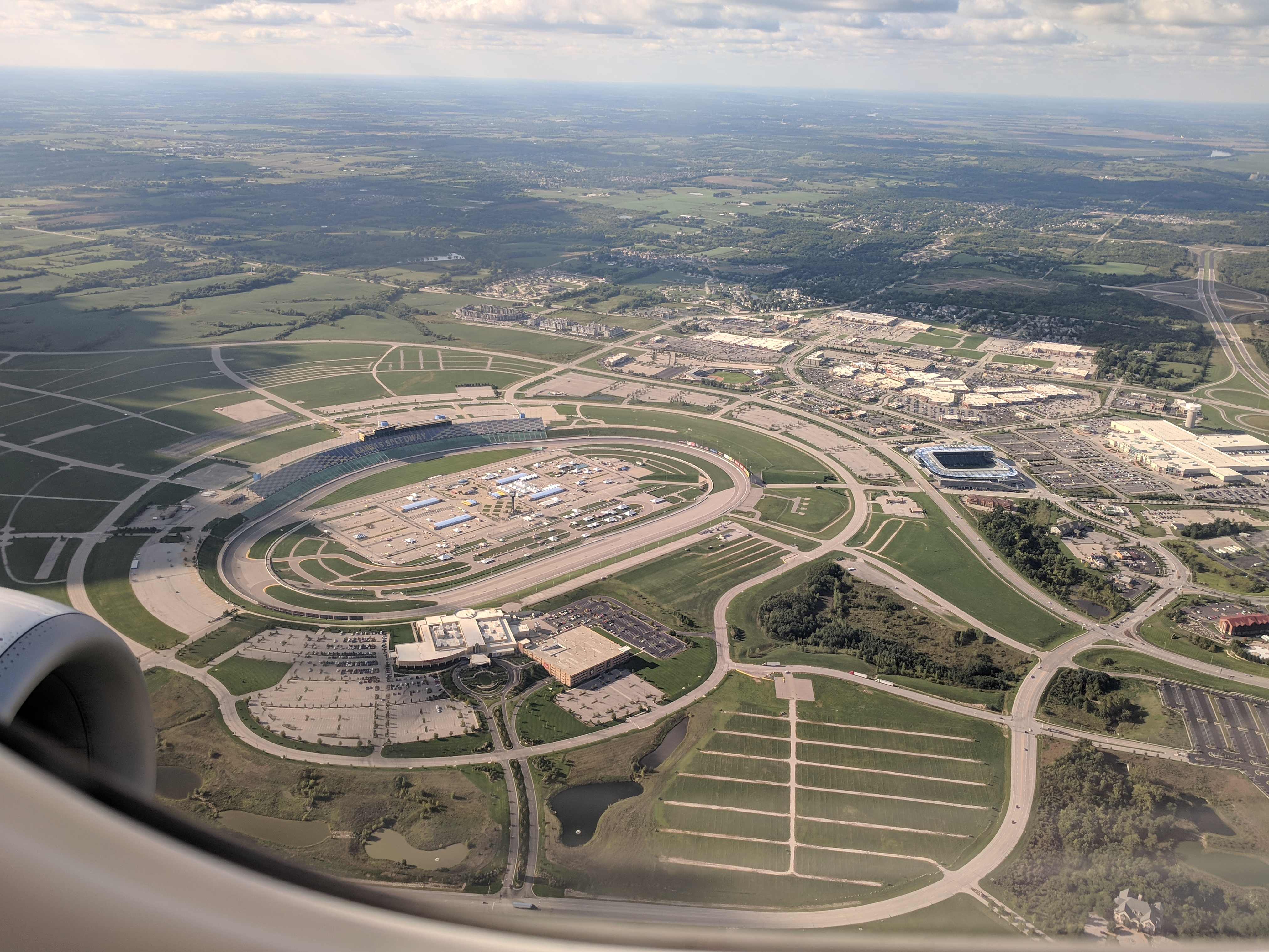 Kansas Speedway and Children's Mercy Park